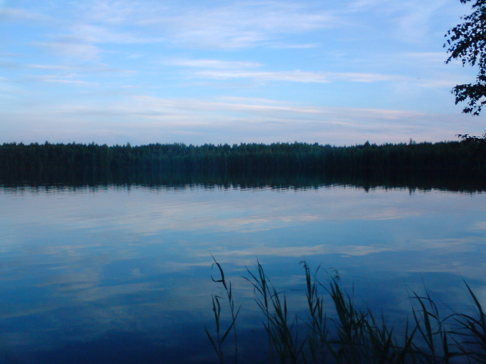 Olanga Lake